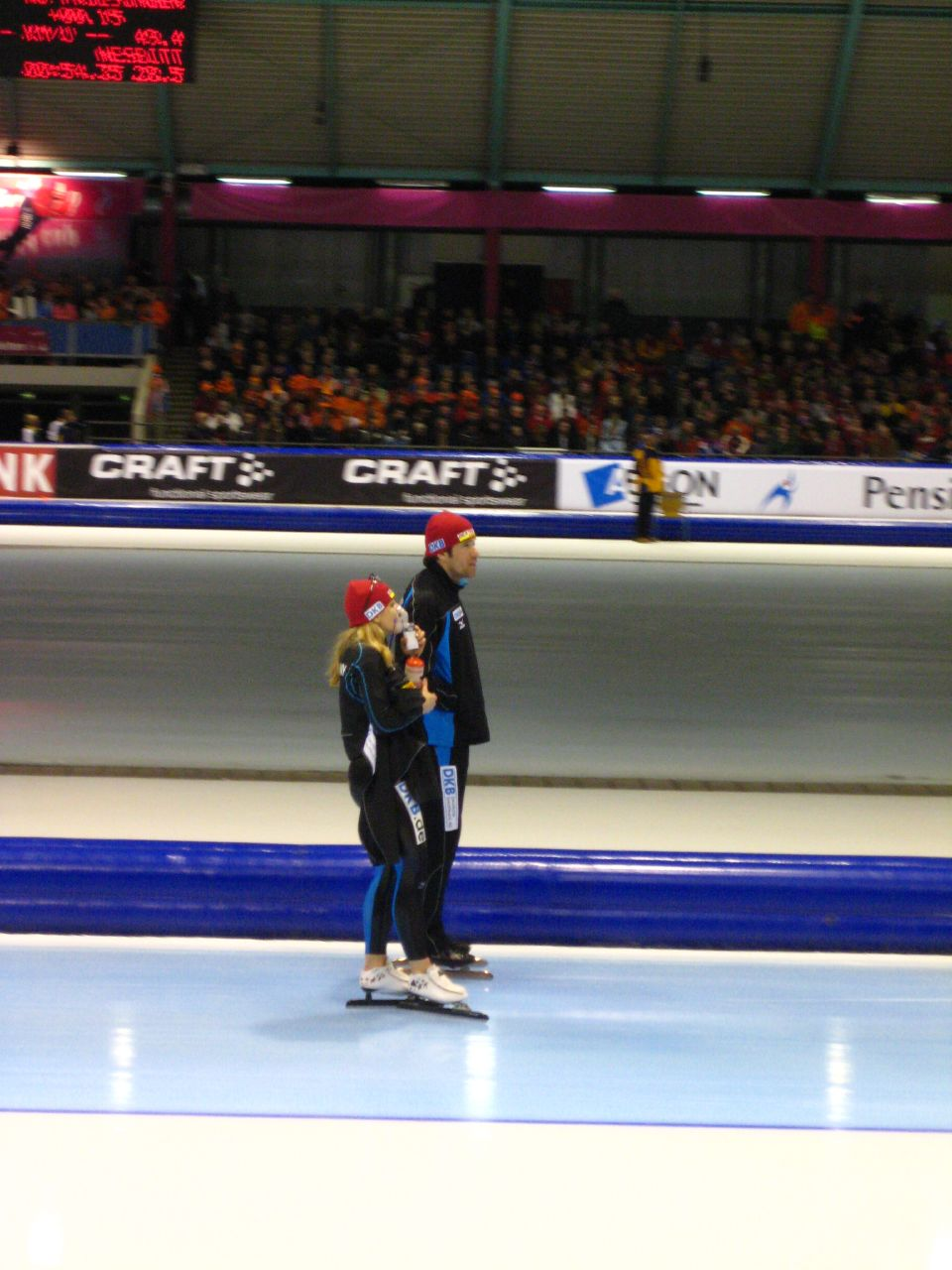 German speedskater Anni Friesinger with her coach, former Dutch speedskater Gianni Romme.